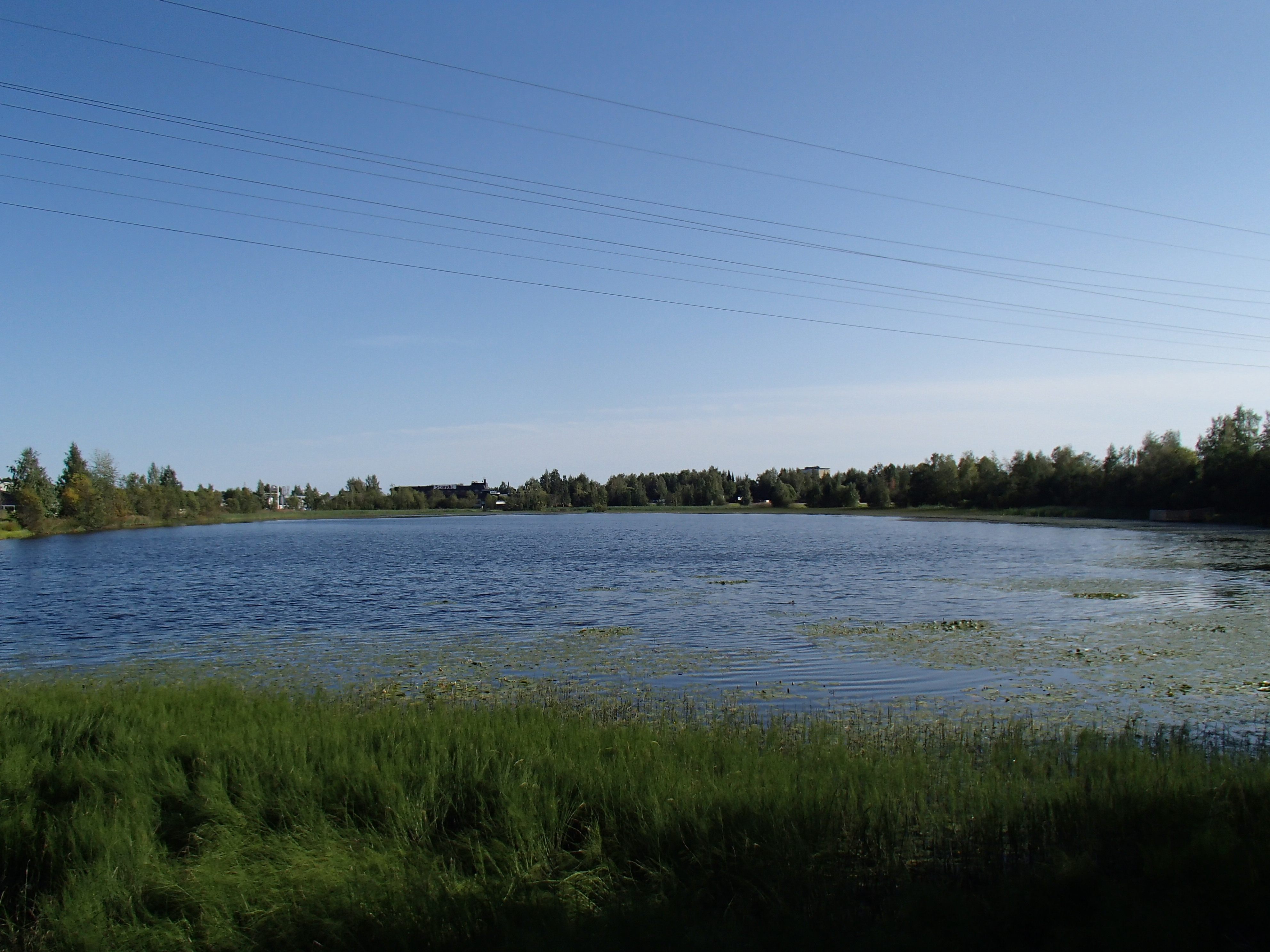 Mjölkuddtjärnen2